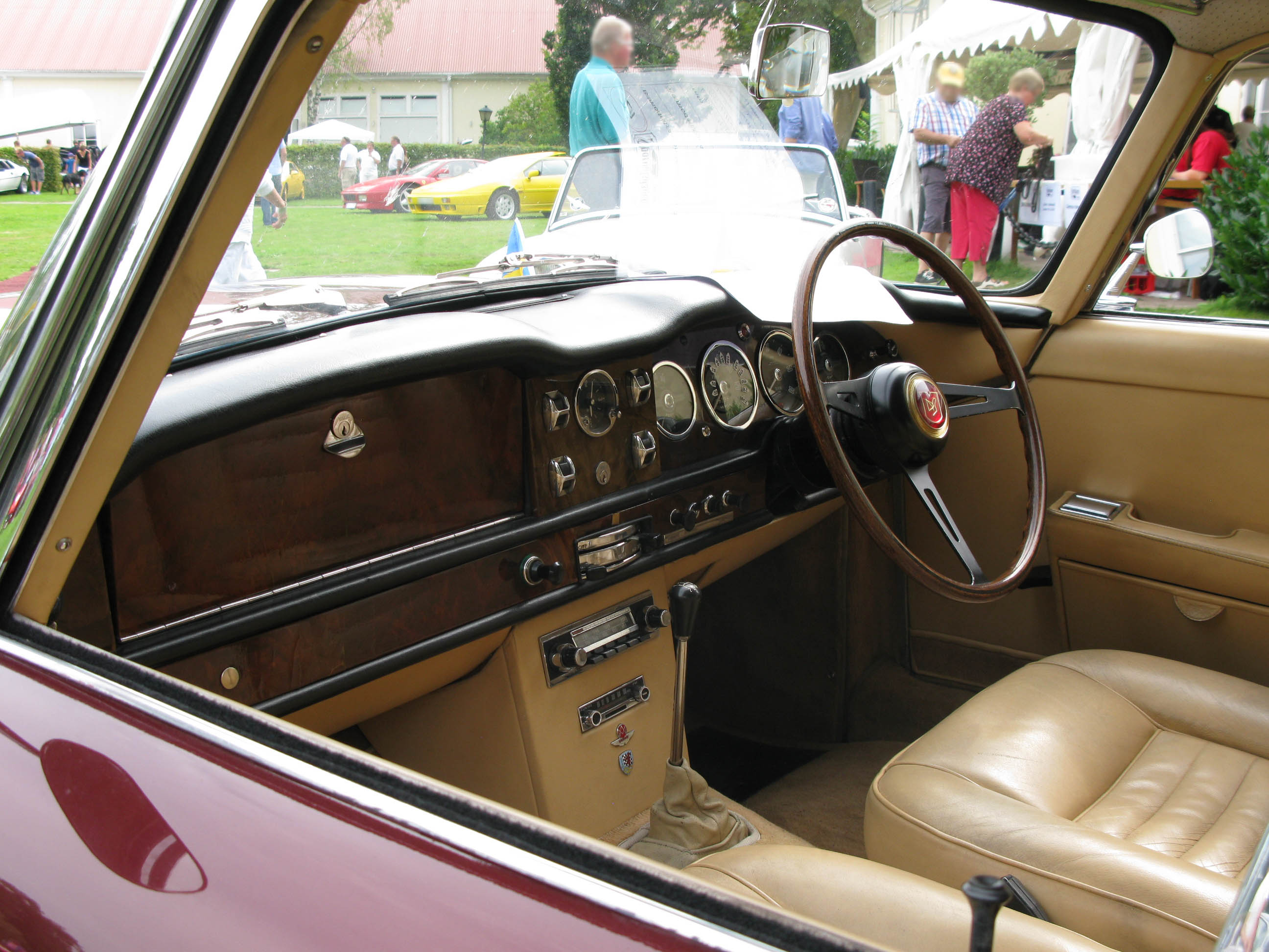 1964 Lagonda Rapide.Event: Sportbilsdagen i Västervik 2012.